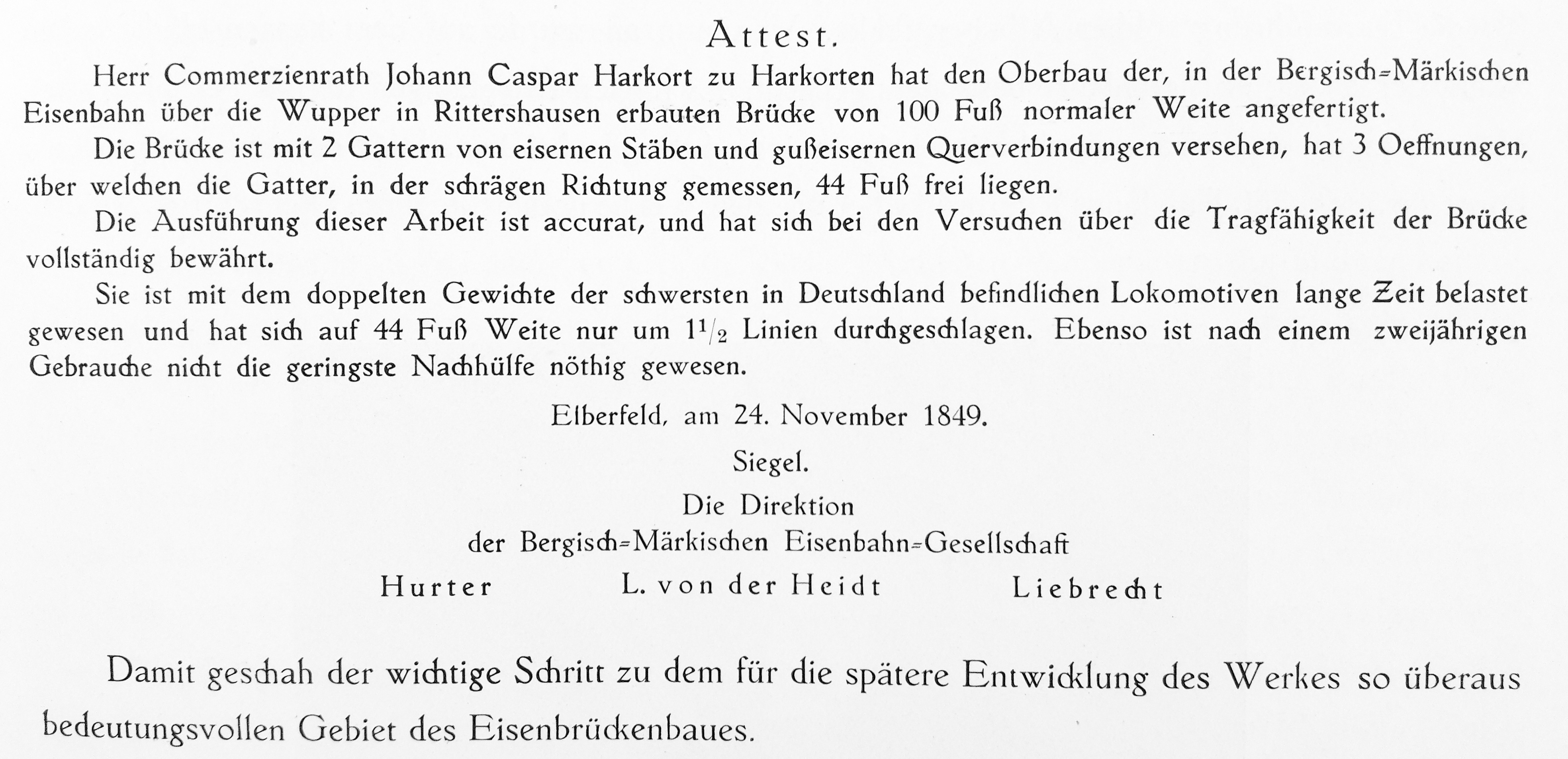 Überssetzung des Attestes über eine Brückenlieferung für die Eisenbahn 1847 durch Johann Caspar Harkort V.